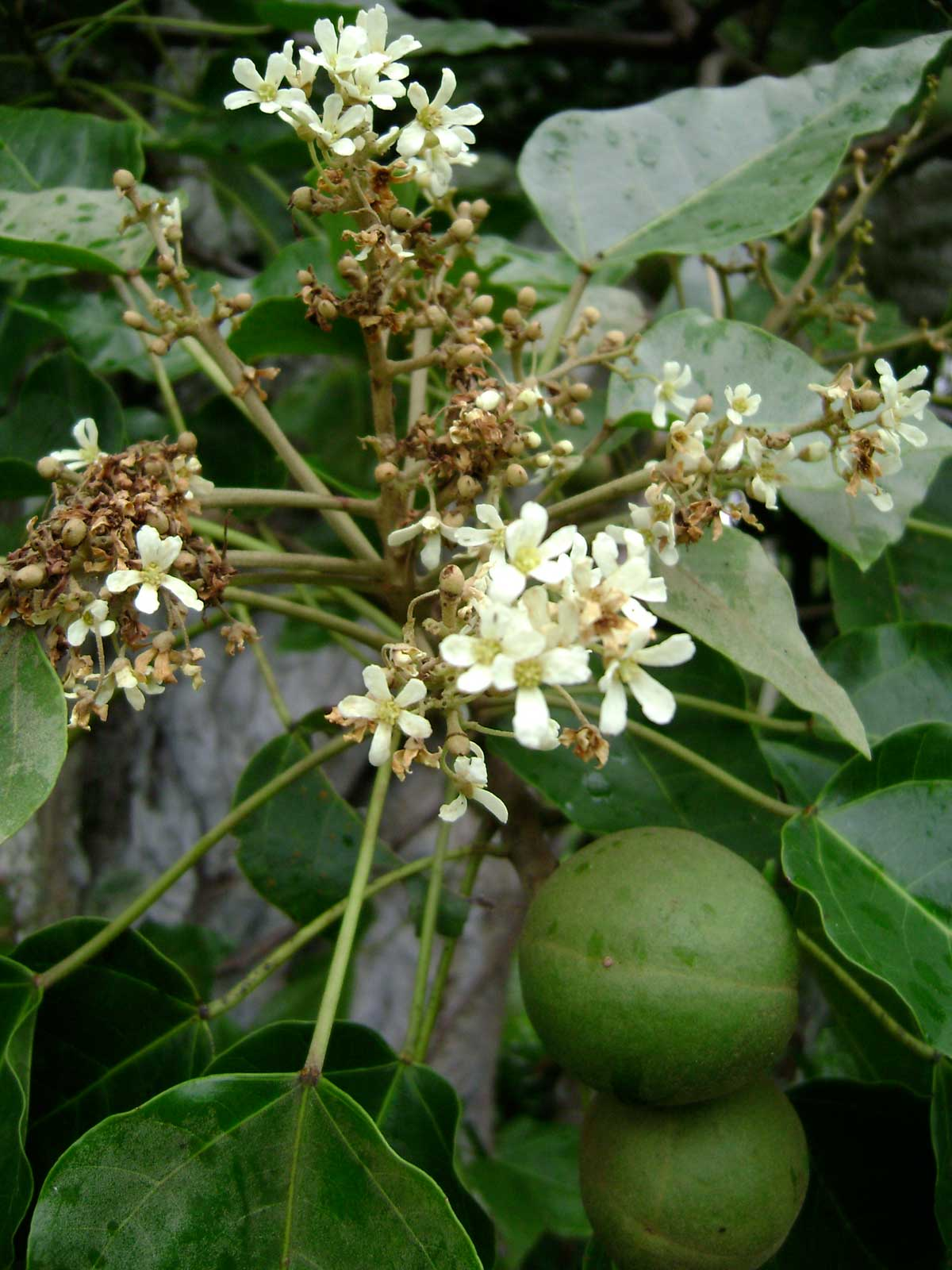 Aleurites moluccana; {tuitui} in Tonga; leaves; flowers; fruits